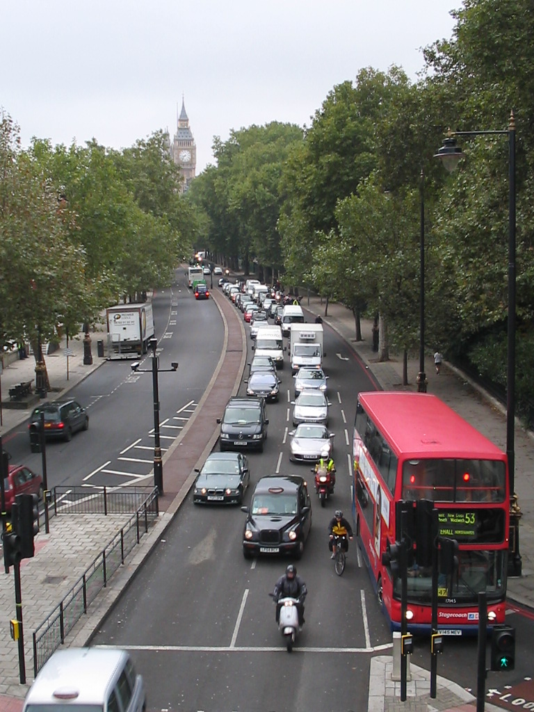 A view south down Victoria Embankment, looking from the footbridge which runs alongside the rail tracks across the River Thames into Charing Cross station. The river is on the left, and in the distance is the Big Ben clock tower in Westminster. The bus is a Stagecoach London vehicle which, according to its destination display is operating London Buses route 53 to Whitehall, which means it must be on a diversion today, as the normal route is to cross Westminster bridge and go straight up Whitehall and turn around in Trafalgar Square to begin a new journey (to Plumstead), whereas this one has come up Embankment instead, and is now turning left into Northumberland Avenue, which also goes to Trafalgar Square.